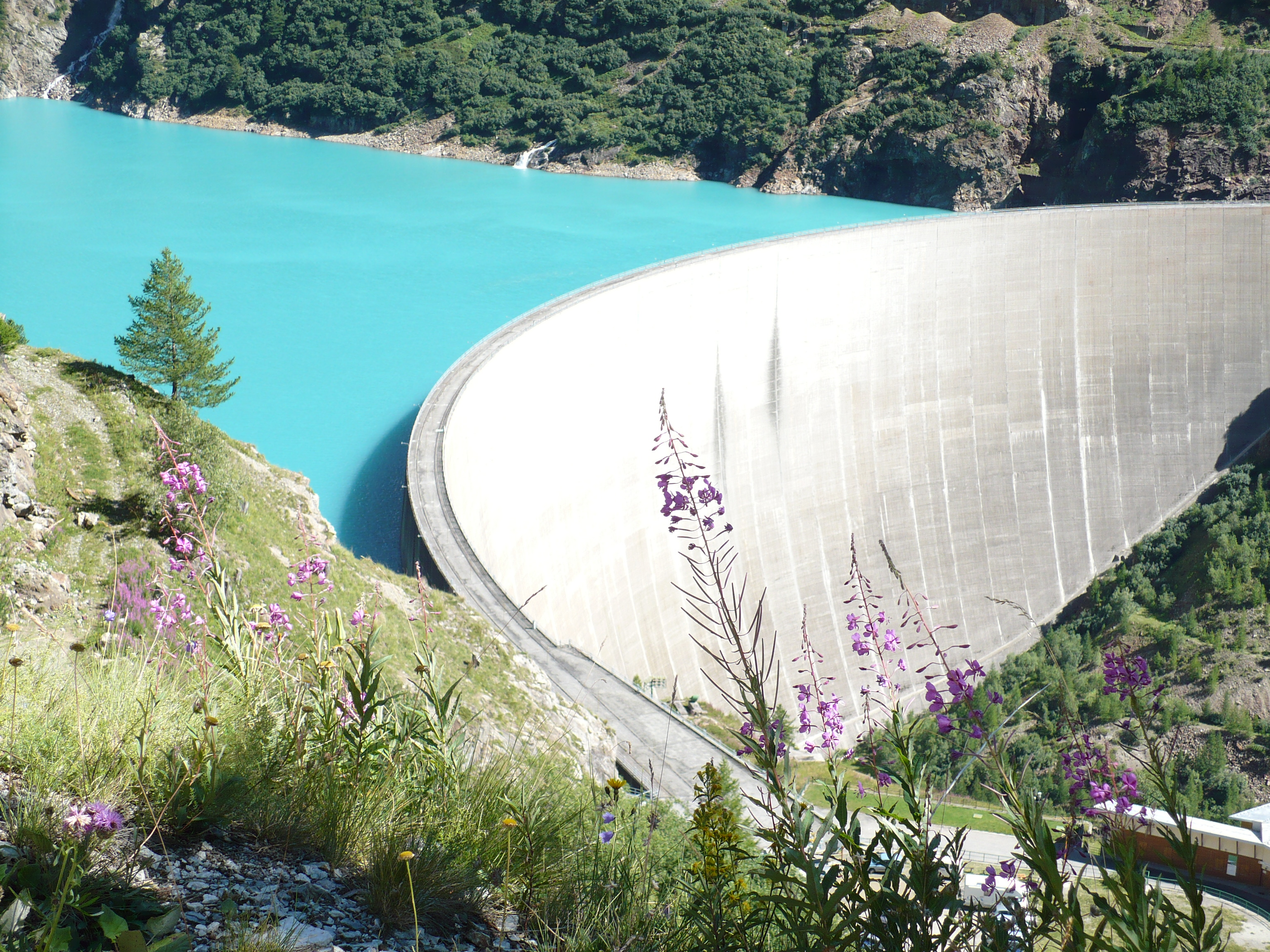 Lake Place Moulin - Valpelline - Aosta Valley - Italy